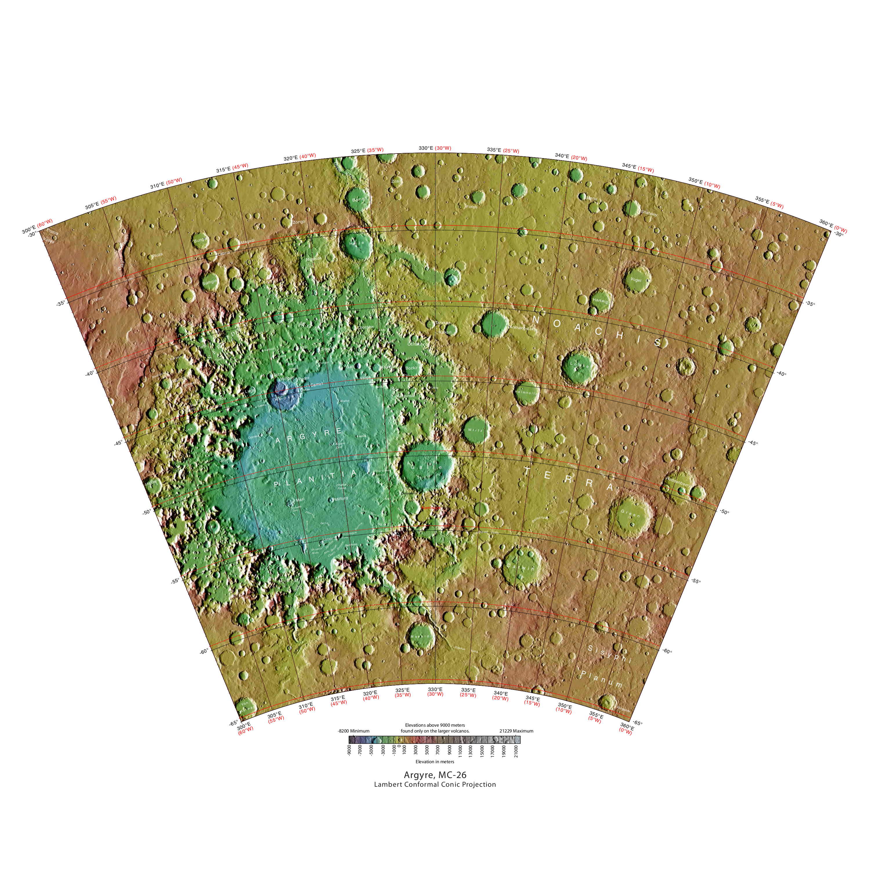 MOLA Topographic Map of Argyre Quadrangle (MC-26) on the planet Mars. NOTE: Converted the original PDF file to a PNG File (via GIMP v2.8.4 program) - and uploaded to Wikimedia Commons.